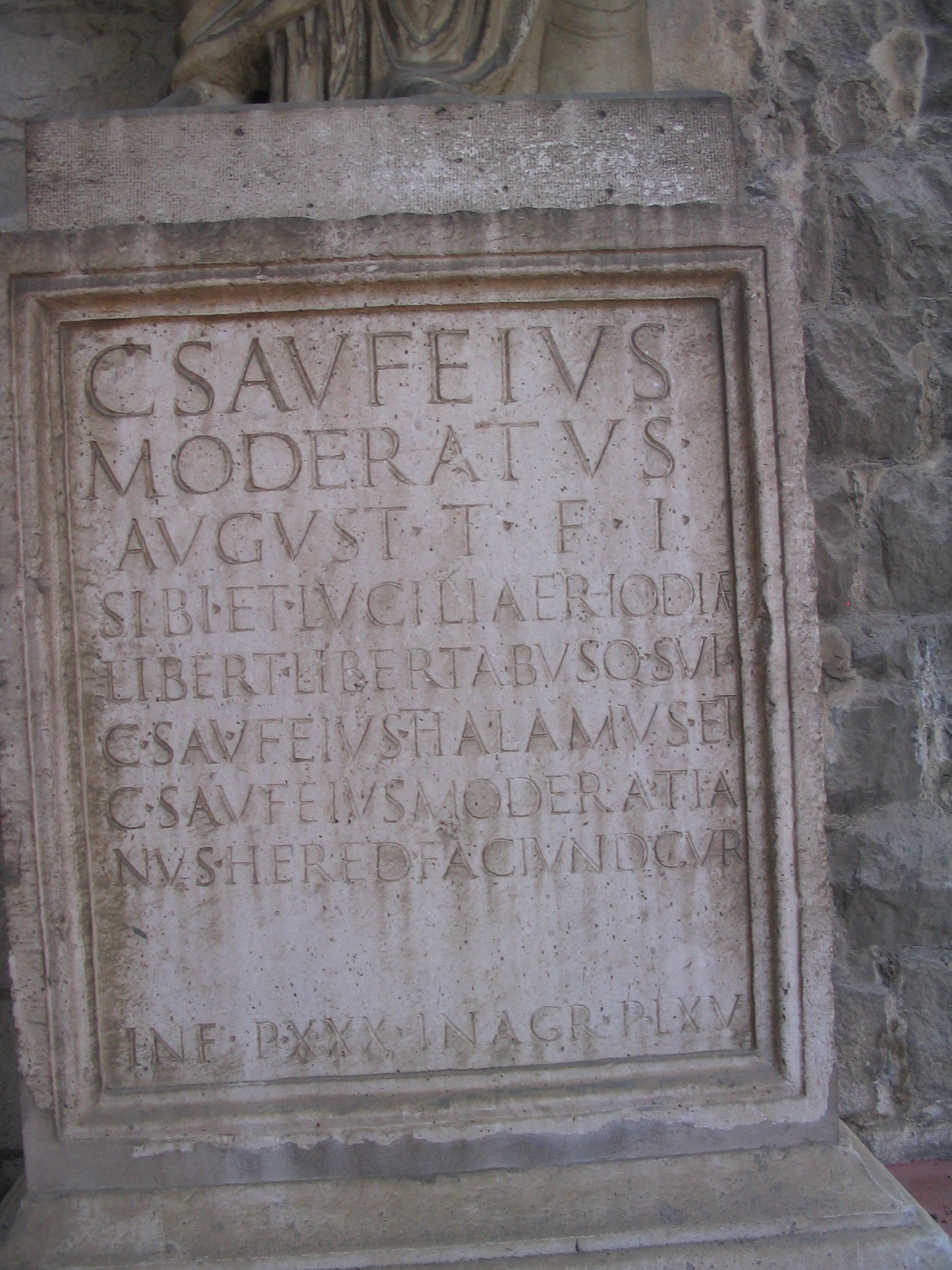 Ancient roman inscription from Salon in the archaeological museum of Split